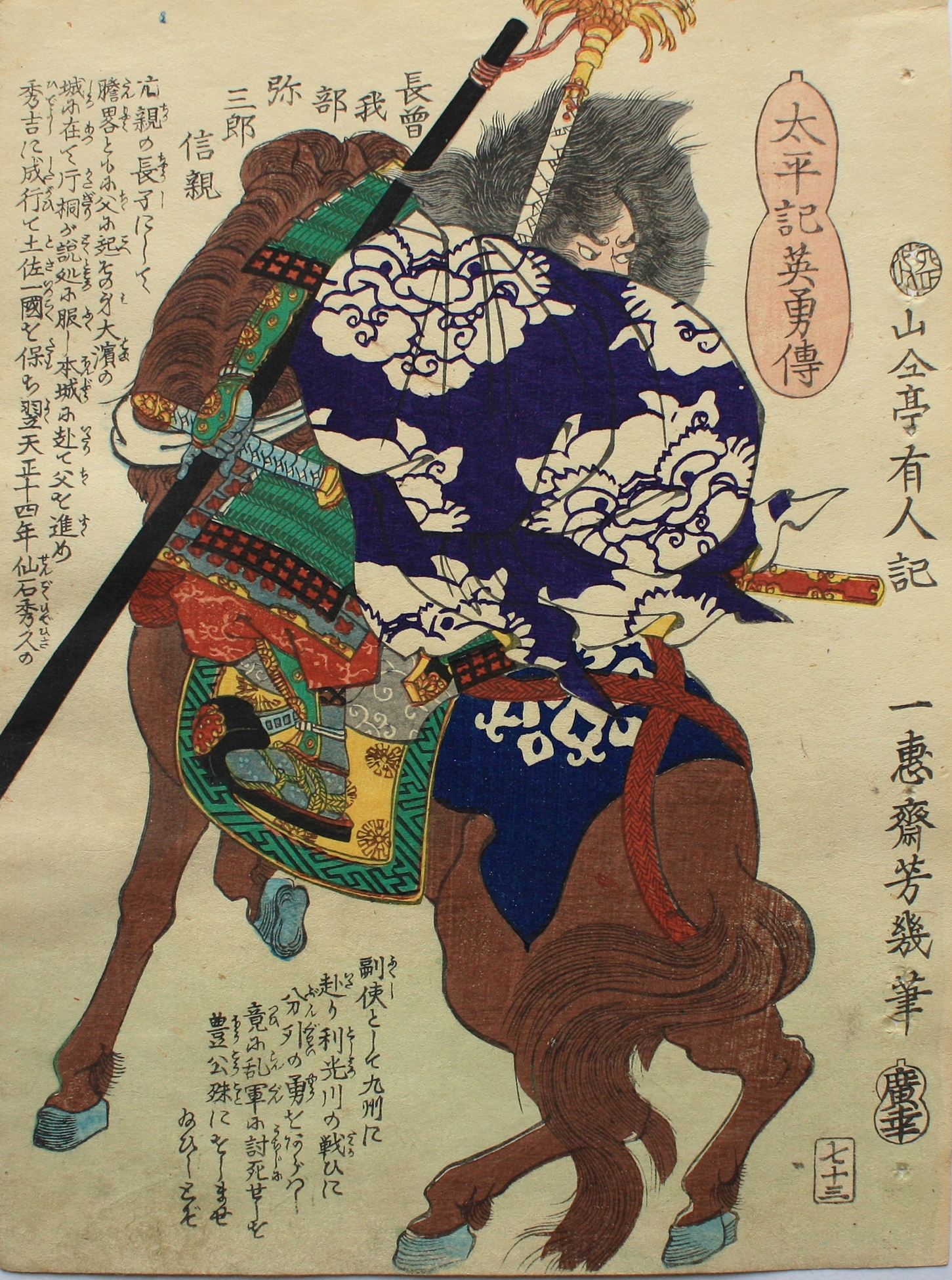 An ukiyoe of Chōsokabe Nobuchika